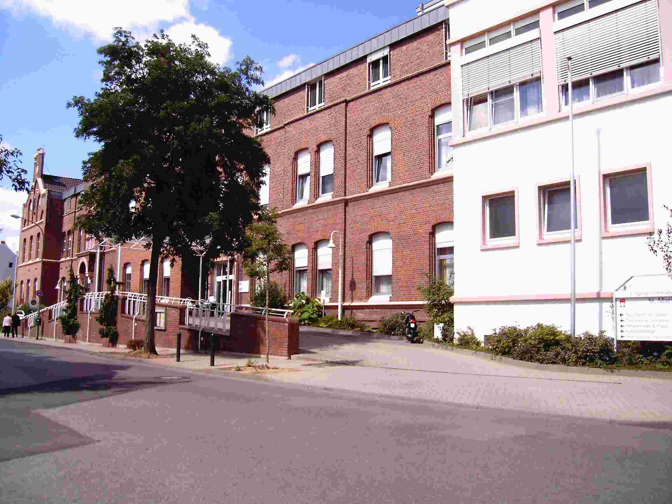 Birkesdorf (Düren), Altbau Marienhospital own work papa1234 2006-08-13